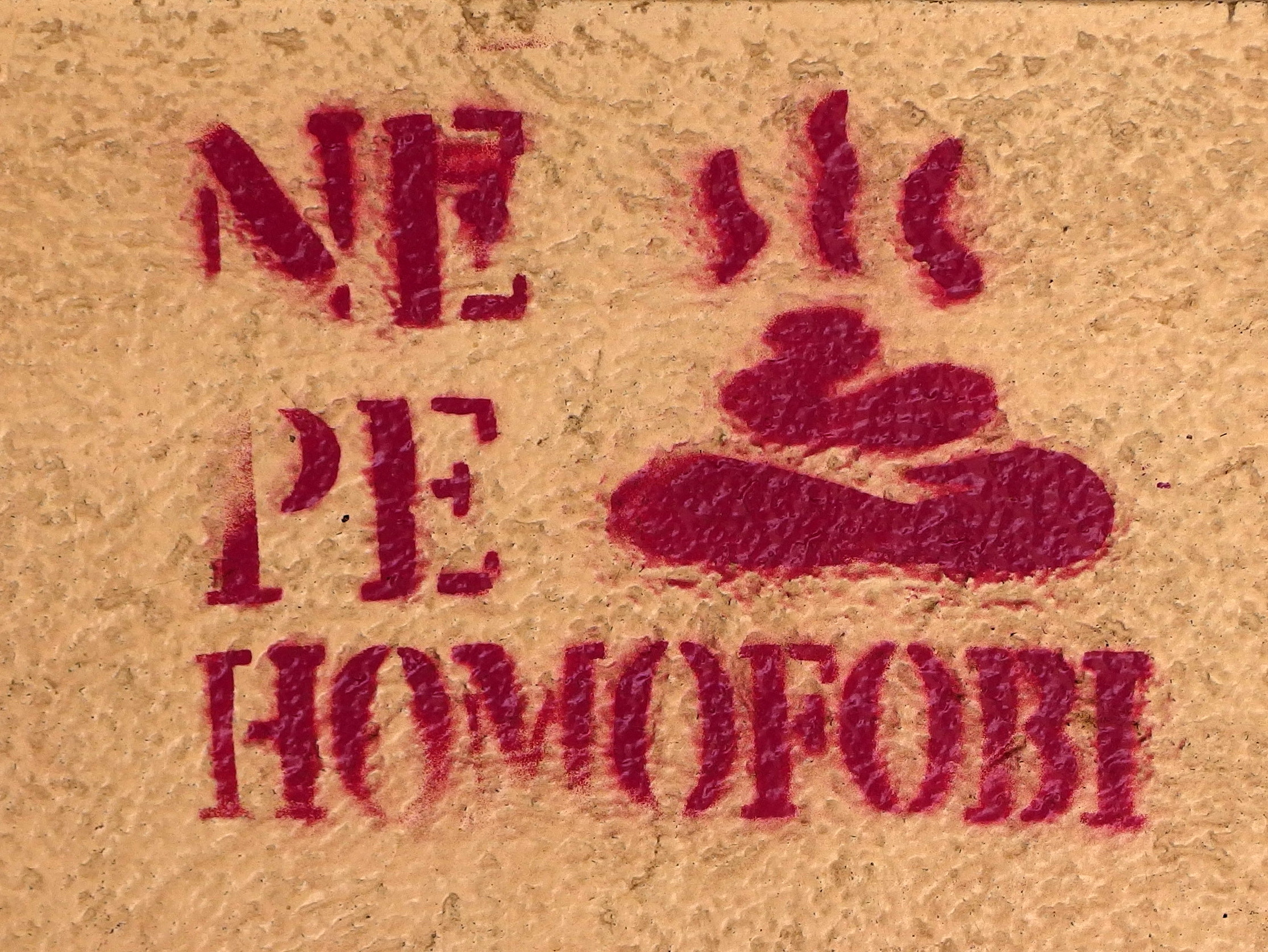 2014-08-18 in Bucharest.